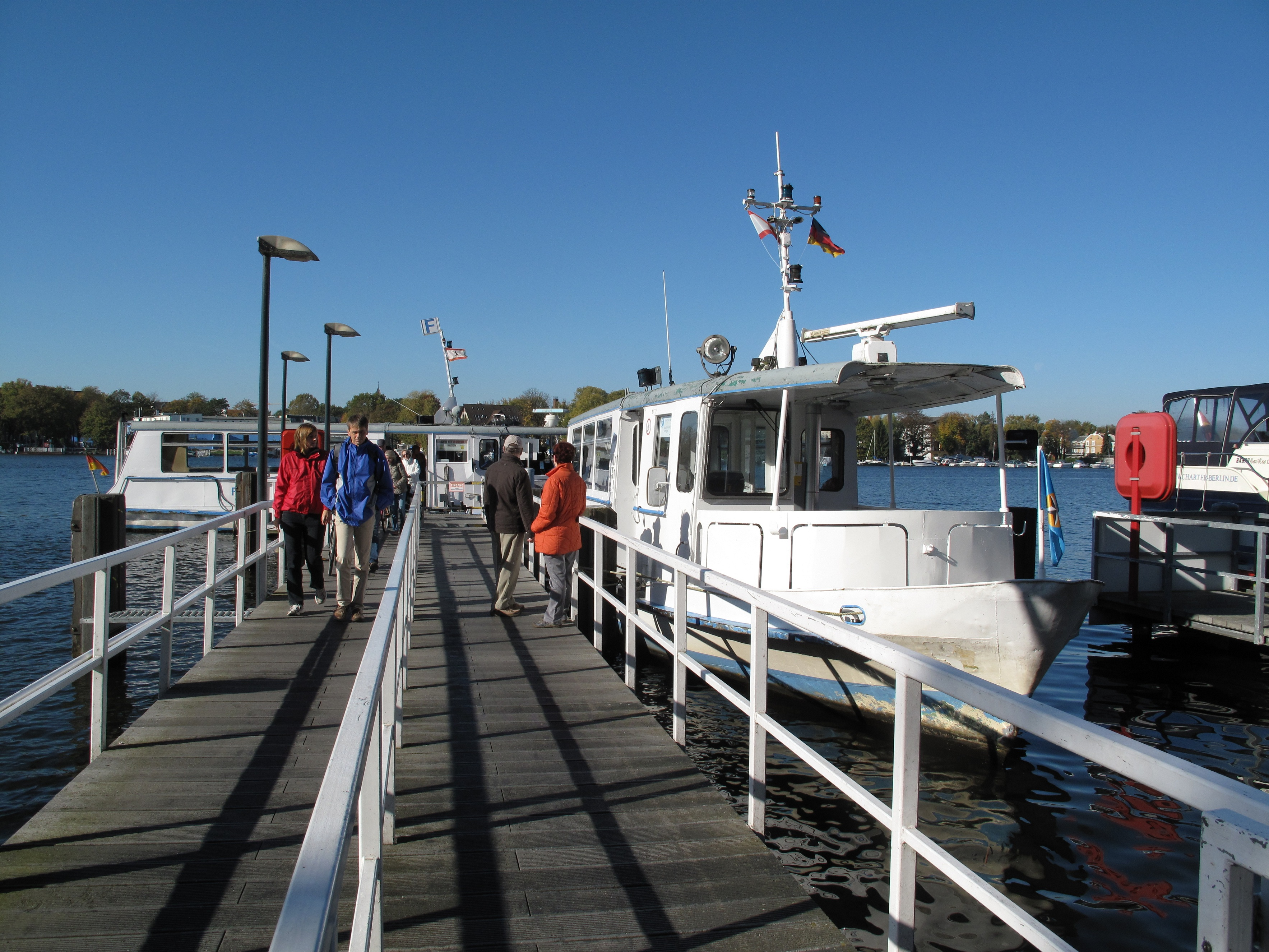 Ferry landing of Berlin's ferry route F12 in Wendenschloß. The route is operated by the Berliner Verkehrsbetriebe (BVG) with boats of the Stern und Kreisschiffahrt and runs throughout the whole year between Grünau (Wassersportallee) and Wendenschloß (Müggelbergallee) in Berlin's borough Treptow-Köpenick, Germany. The ferry crosses the Langer See (german for: long lake), part of the course of the River Dahme. The passenger ferry is handicapped-friendly (without steps).